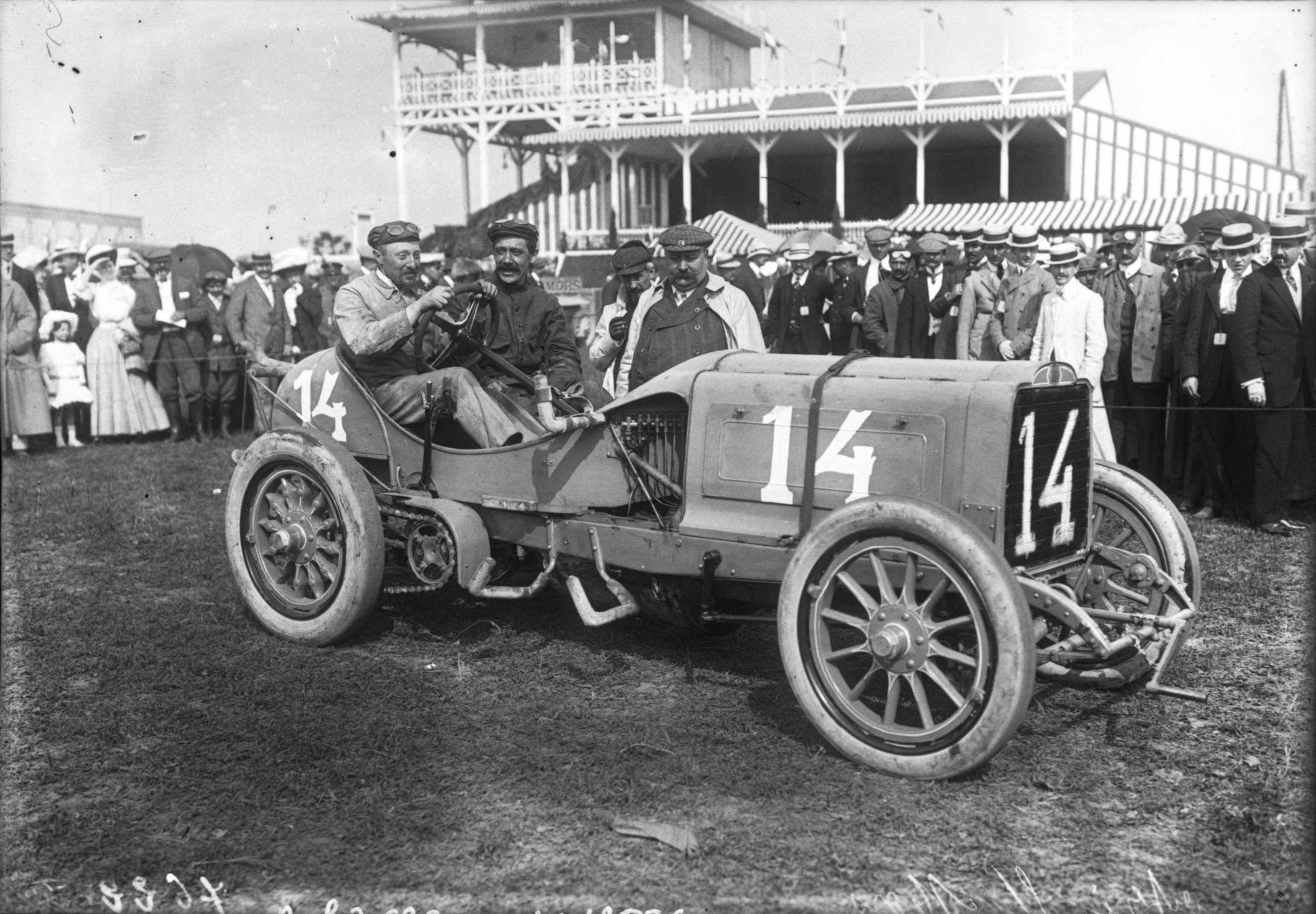 Camille Jenatzy in his Mors at the 1908 French Grand Prix at Dieppe.